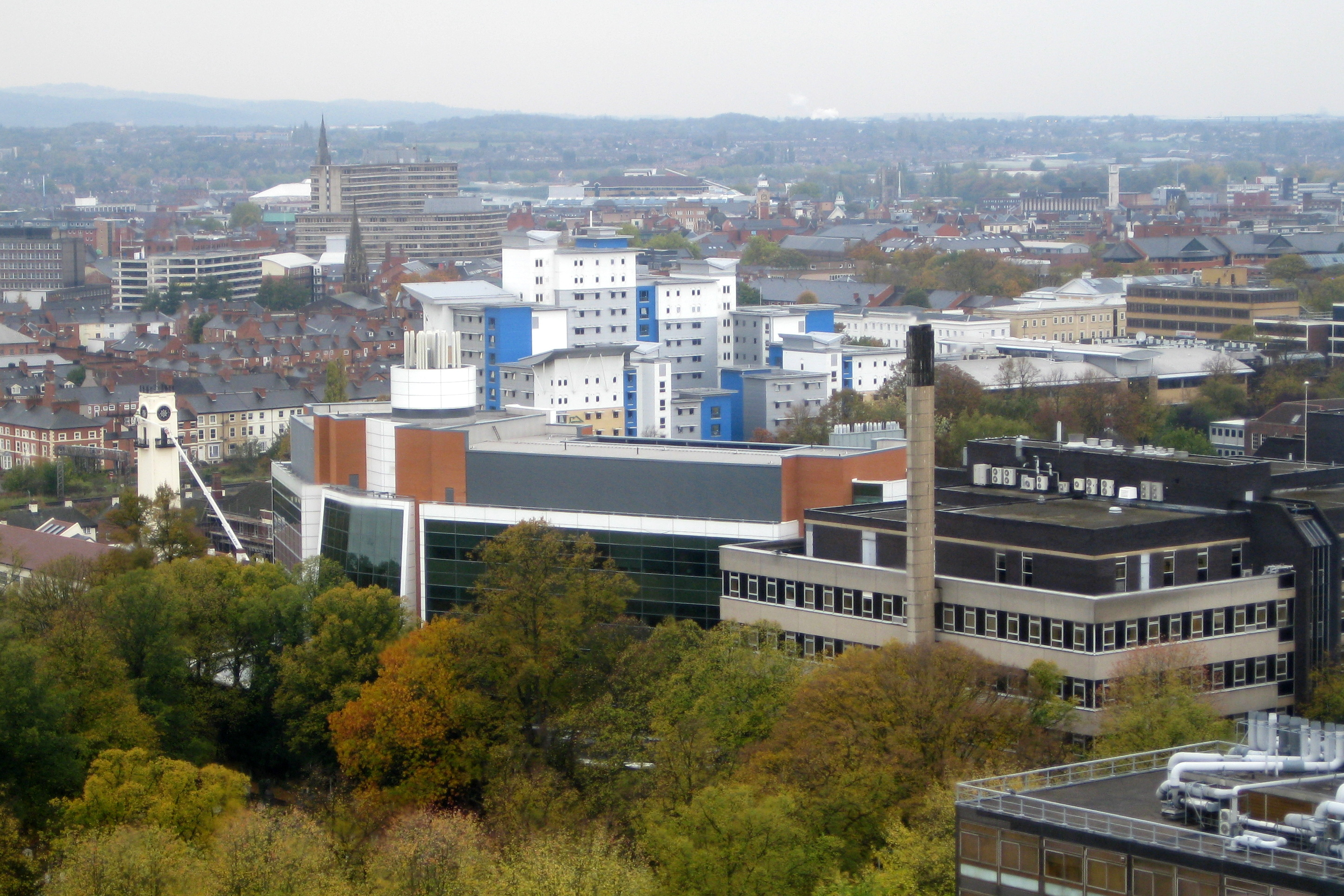 The Henry Welcome Building and Opal Court at the University of Leicester. The former houses several departments conducting scientific research; the latter is a hall of residence.